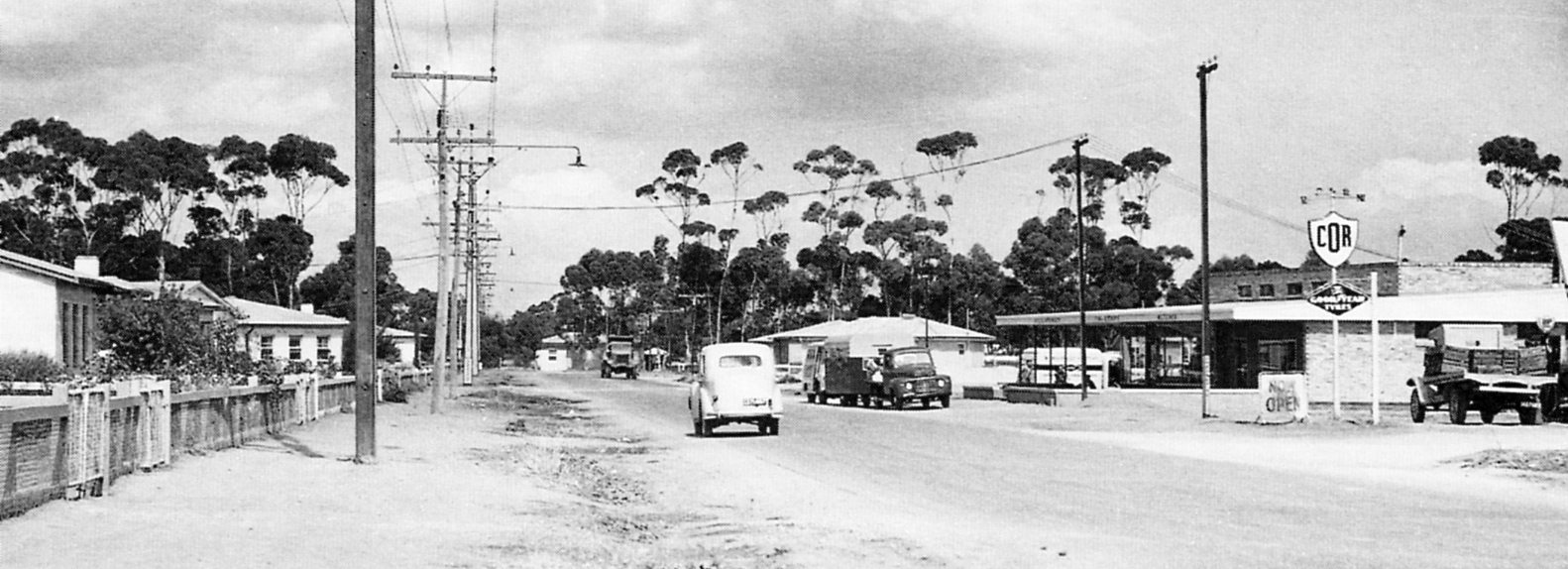 A panoramic view of Bagster's Road, the main thoroughfare in the suburb of Salisbury North, South Australia. It shows houses, electricity (Stobie) poles, cars and trucks, and a petrol station.